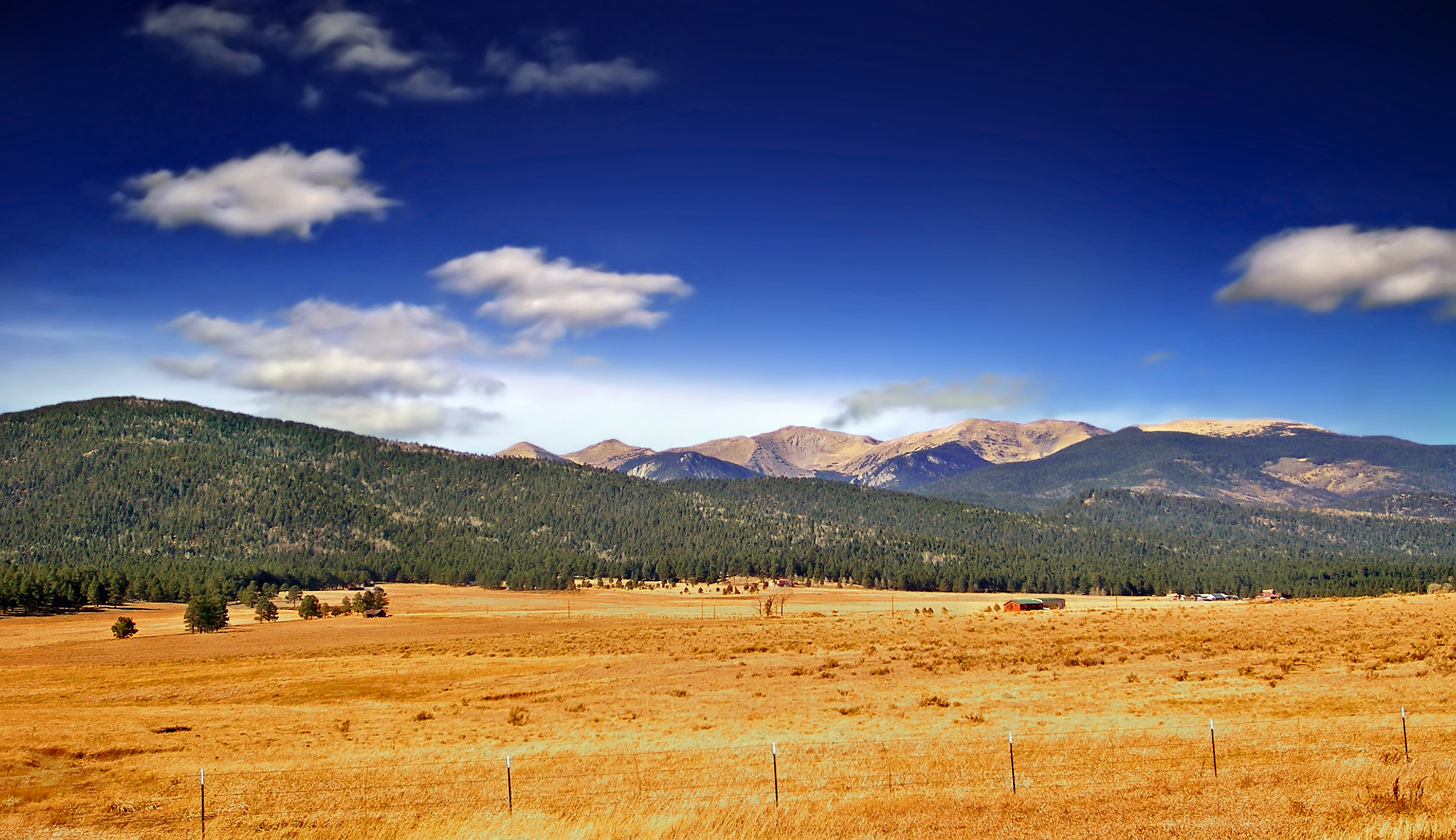 Wheeler Peak from Eagle Nest, New Mexico, United States. Author:Nicholas_T